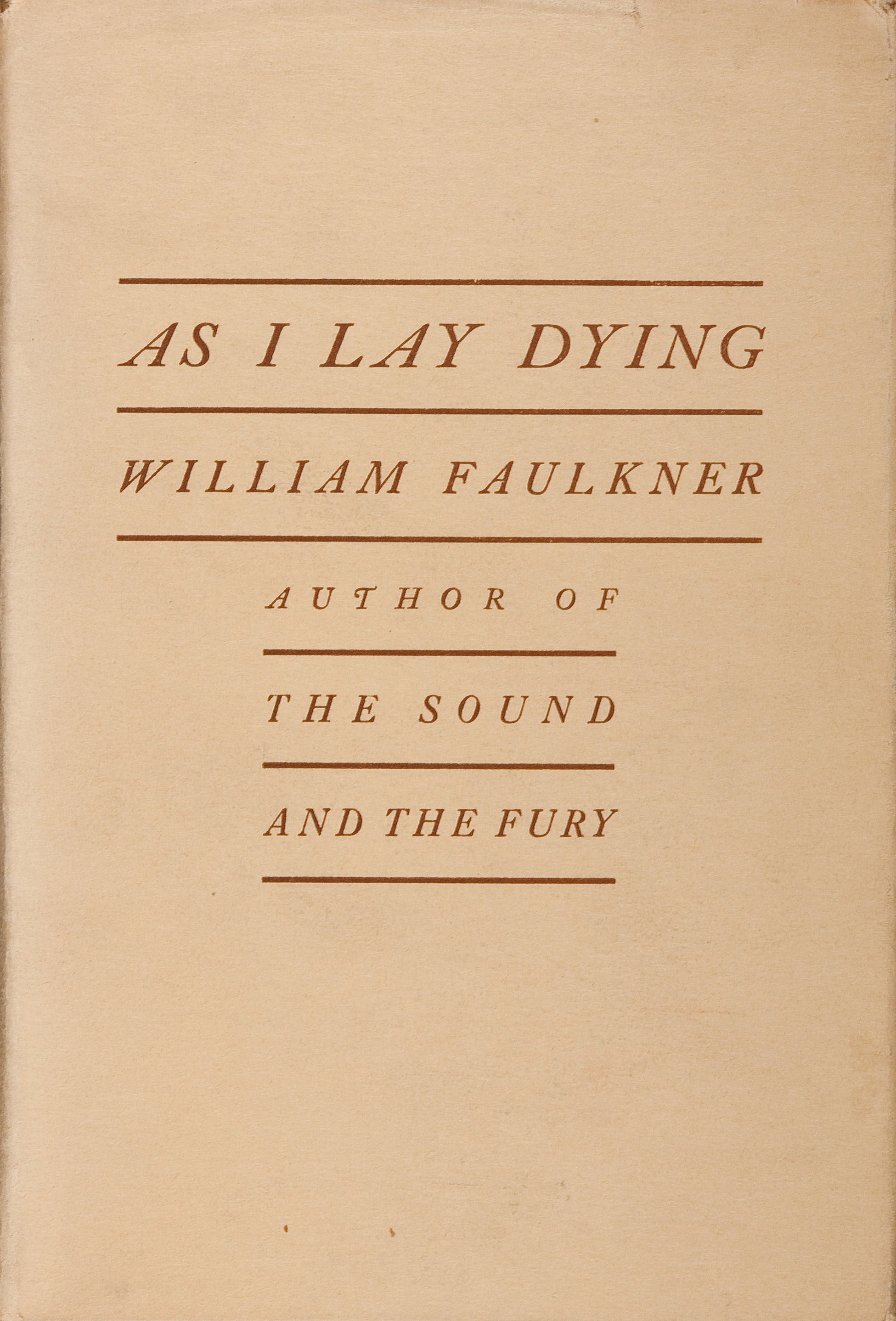 First-edition dust jacket cover of As I Lay Dying (1930) by the American author William Faulkner.